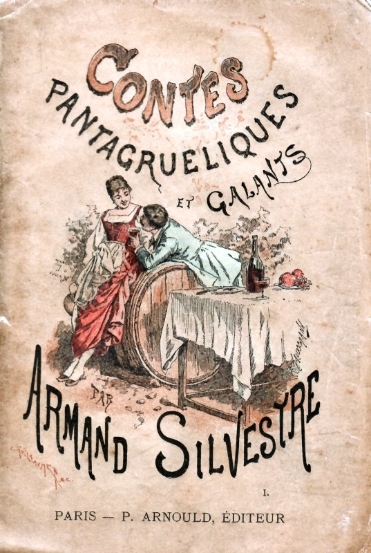 Cover of "Contes pantagruéliques et galants" (1884) by French writer and poet Armand Silvestre (1837-1901)